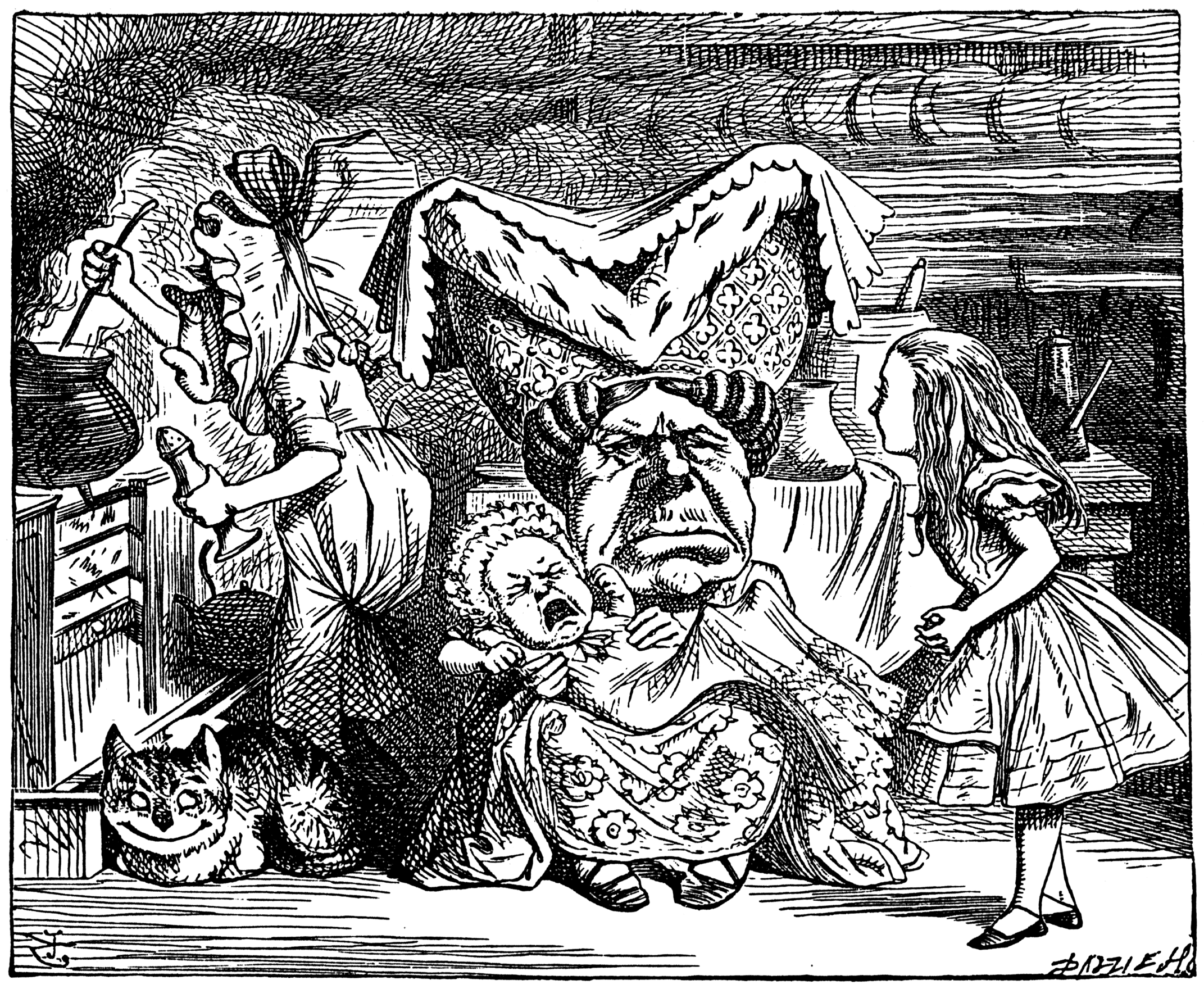 Illustration by John Tenniel, published in 1865 in Alice's Adventures in Wonderland.